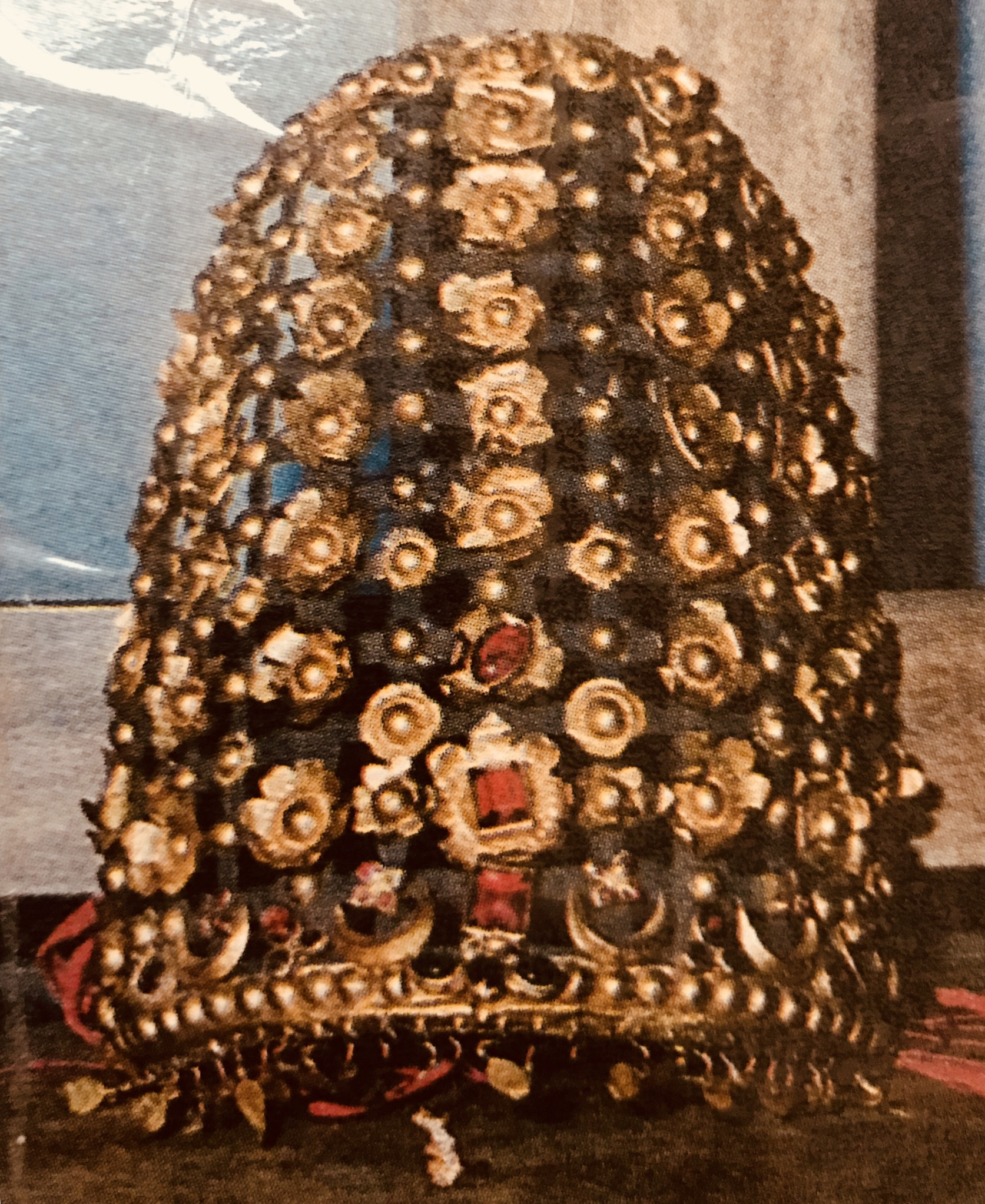 A historical wedding crown (bride) of the Knanaya Christians. This particular crown is displayed at Chunkom Knanaya Church